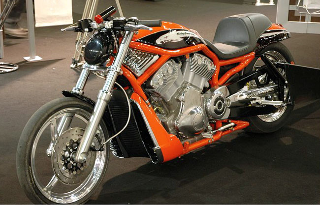 Harley-Davidson V-Rod Destroyer (Factory Dragster)